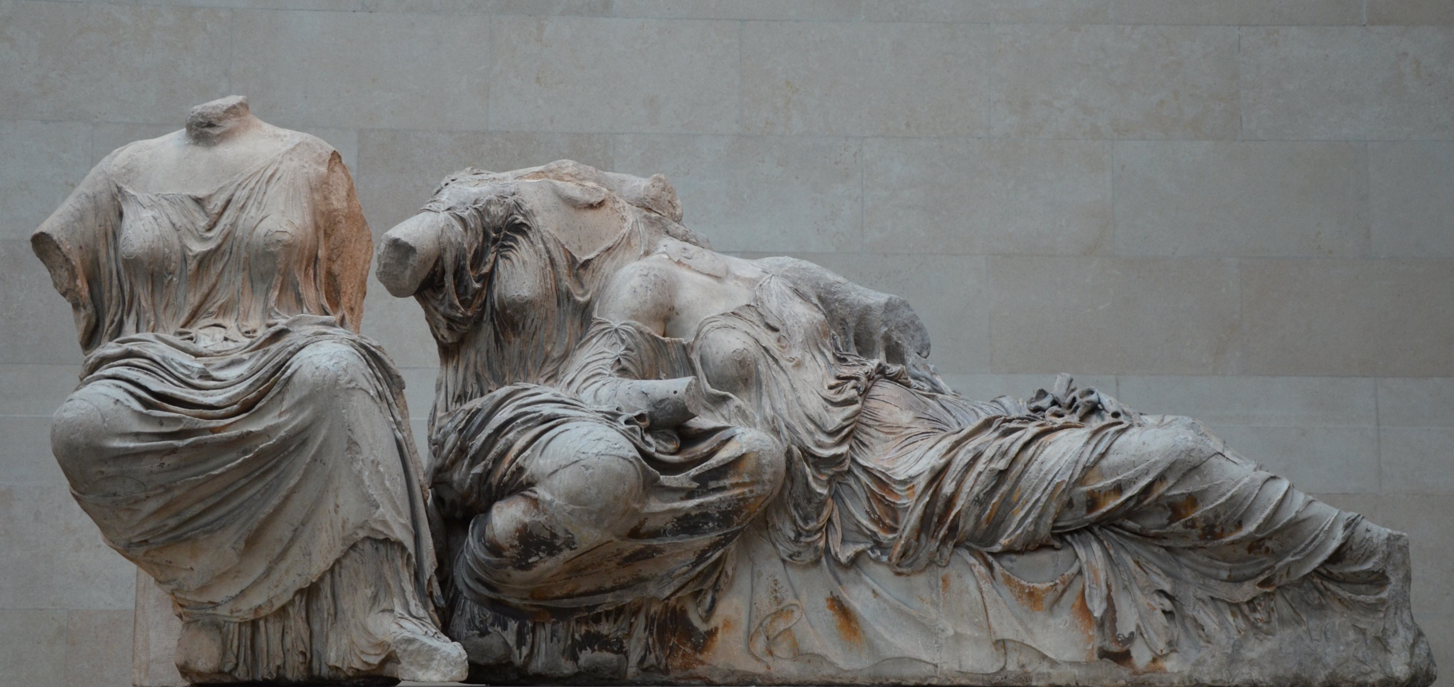 Marble statue group of three female figures, from the East pediment of the Parthenon, around 438-432 BC, the Parthenon sculptures, British Museum